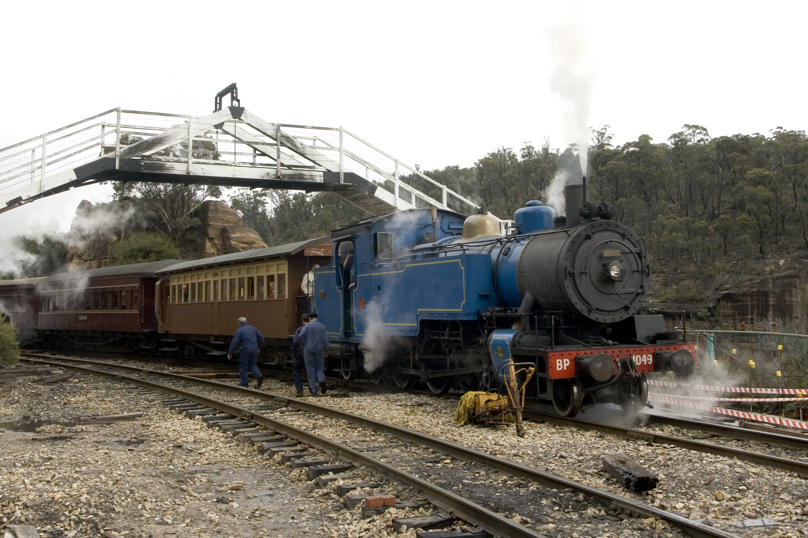 Locomotive 1049 at Zigzag railway